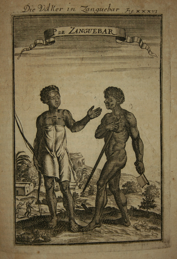 All the maps and views shown here come from different editions (1683-1719) of Mallet; some of them are from translations into German and Italian, and some from later reissues by others, with or without small modifications.